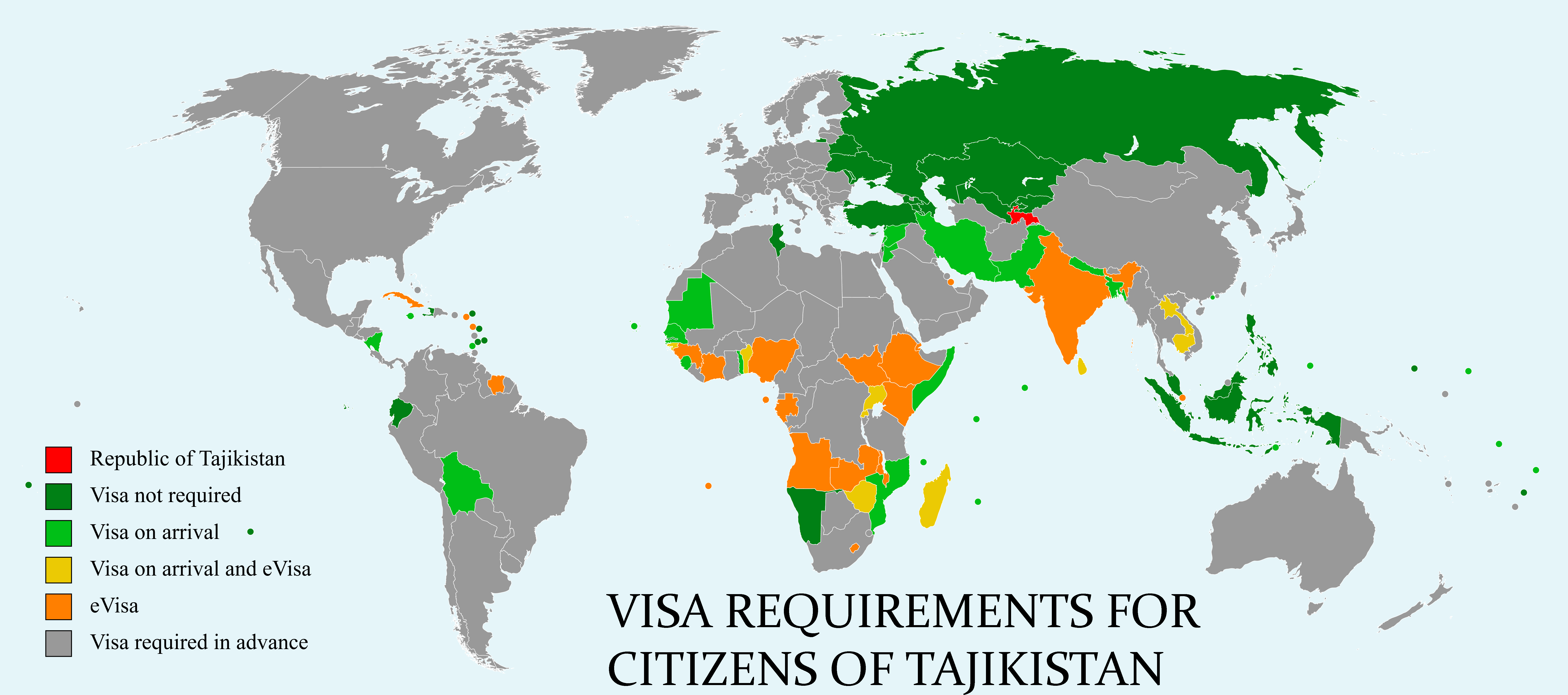 Visa requirements for Tajik citizens Tajikistan Visa not required Visa on arrival Electronic authorization or online payment required / eVisa Visa available both on arrival or online Visa required prior to arrival